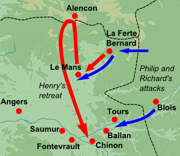 Blank topographic map of France in the official Lambert-93 projection. Note: The background map is a raster image embedded in the SVG file.